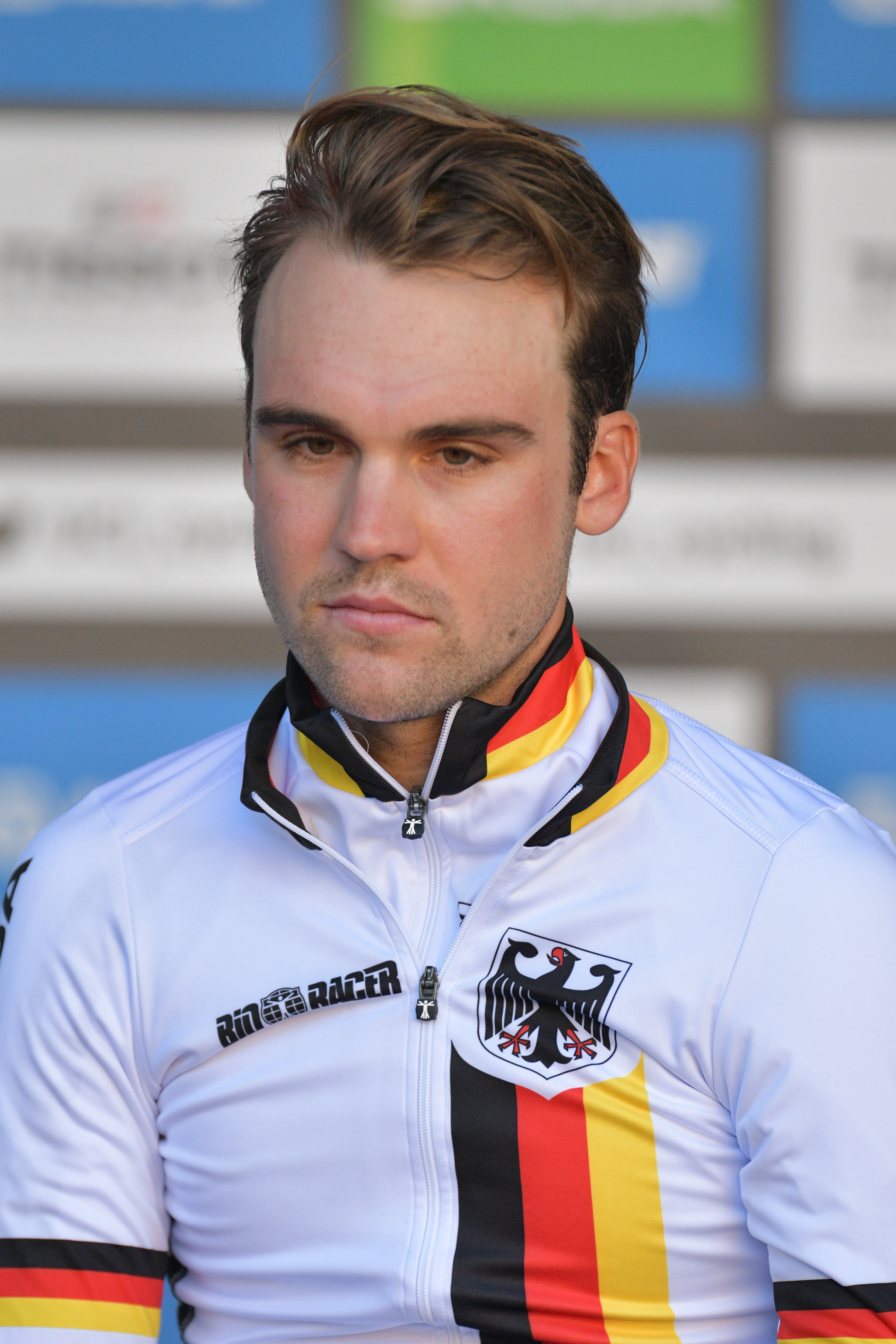 2018 UCI Road World Championships Innsbruck/Tirol Men's Individual Time Trial. Picture shows: Maximilian Schachmann of Germany